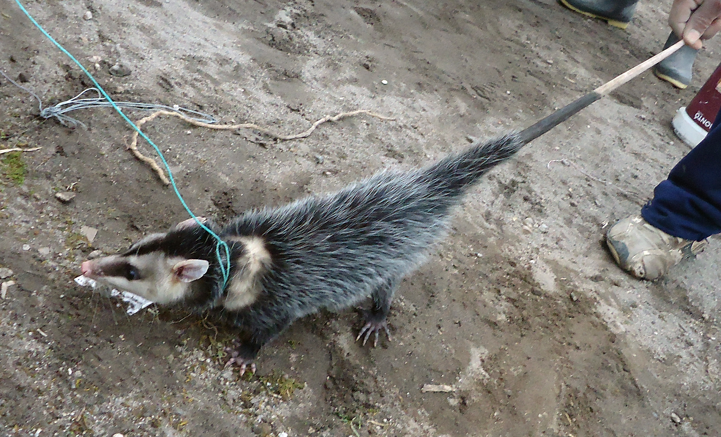 Didelphis pernigra (Andean white-eared opossum) captured around 2600m altitude in the rural area of Cotacachi, Ecuador. In this area, these animals are captured for their meat.